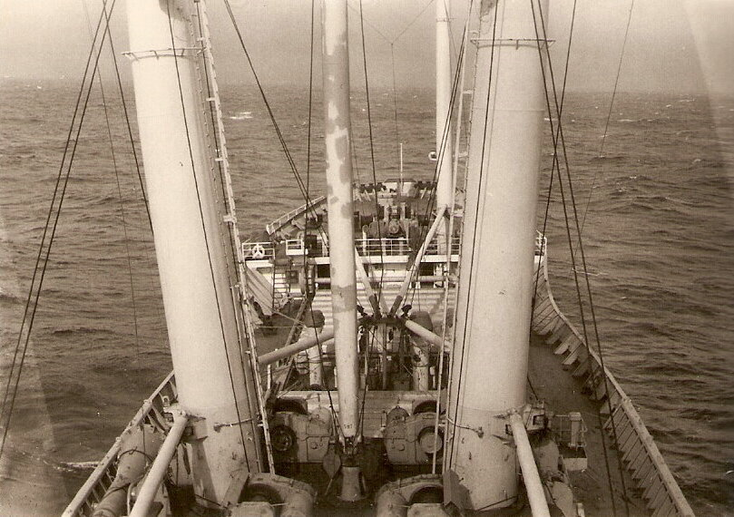 East german ship Bernhard Bästlein Type X called. View from bridge over forecast.